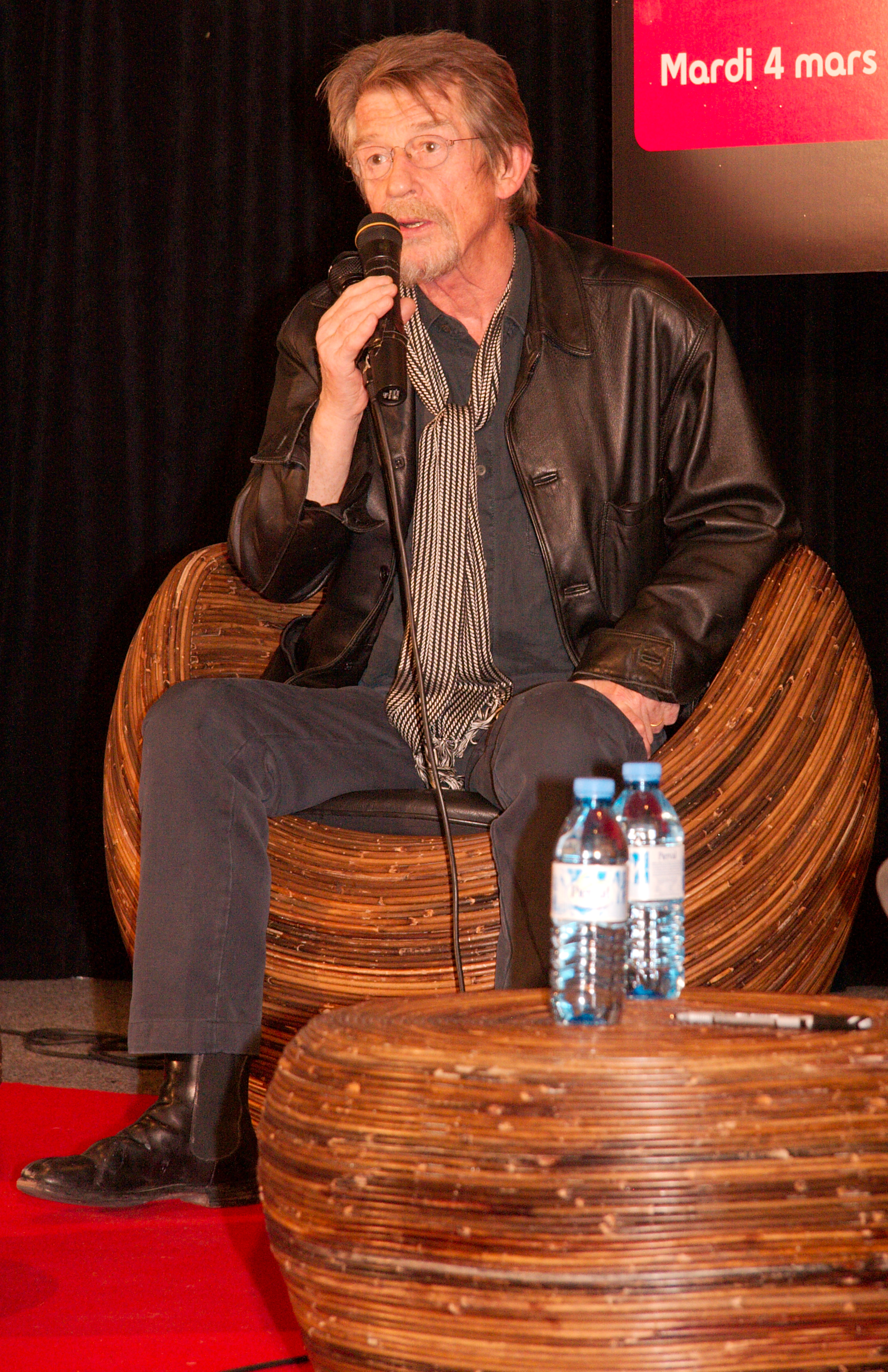 Rendezvous with John Hurt at Fnac des Ternes (Paris, France).